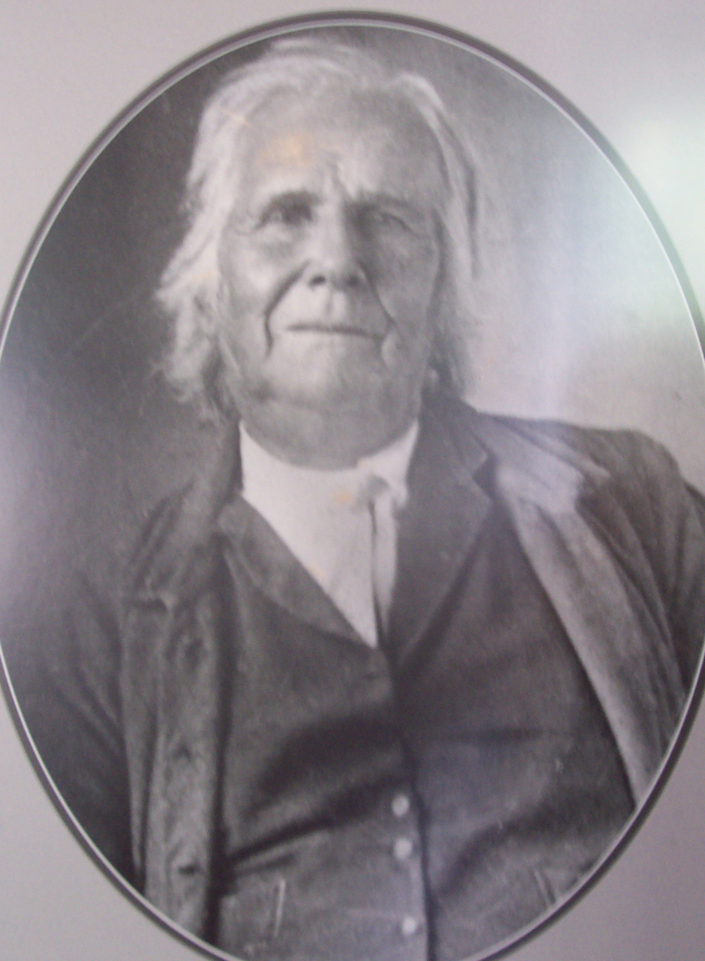 image of a photo of dennis pennington died c 1840.